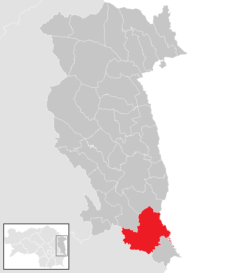 district Hartberg-Fürstenfeld